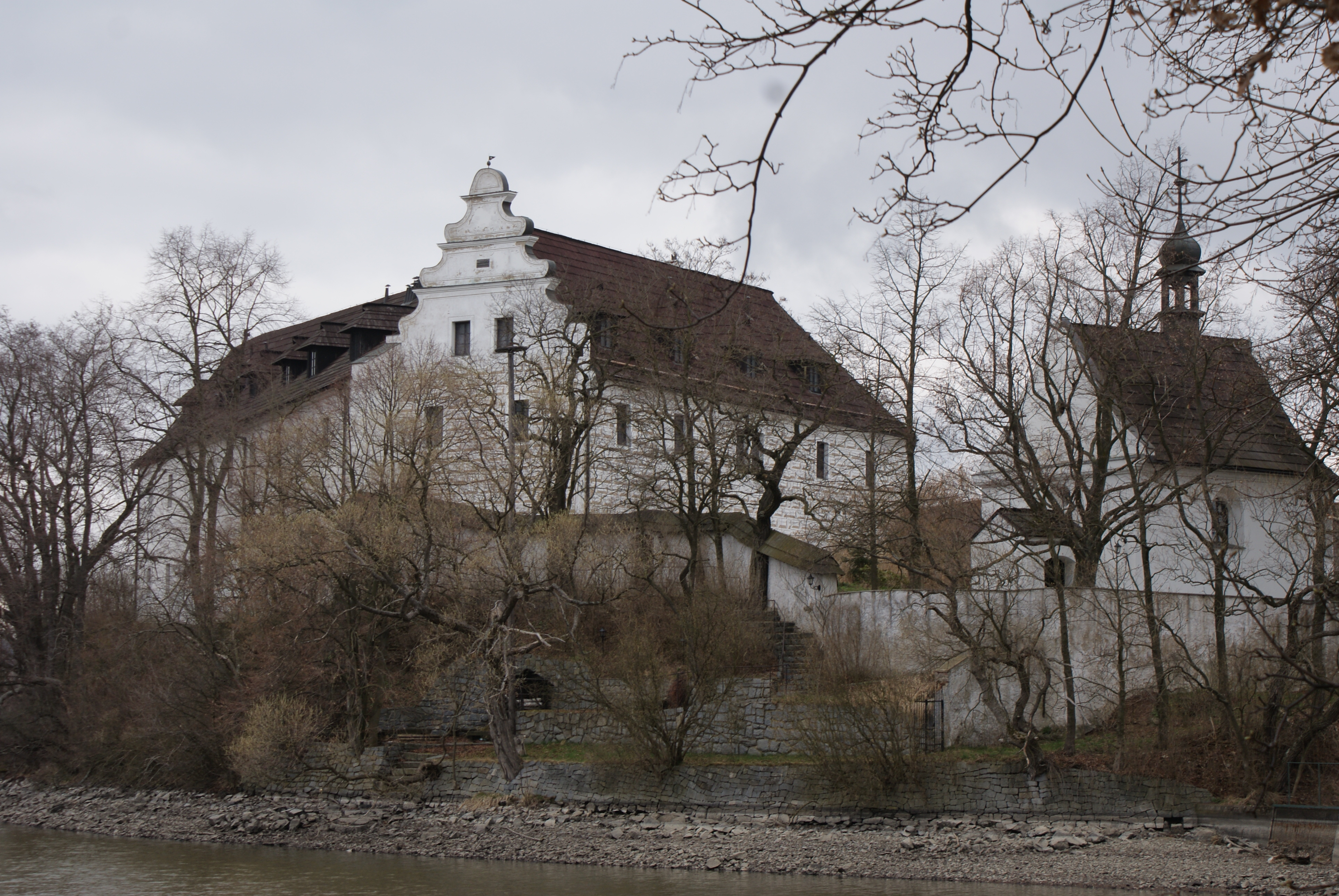 The castle in Starosedlský Hrádek, a village in Příbram district, Czech Republic.